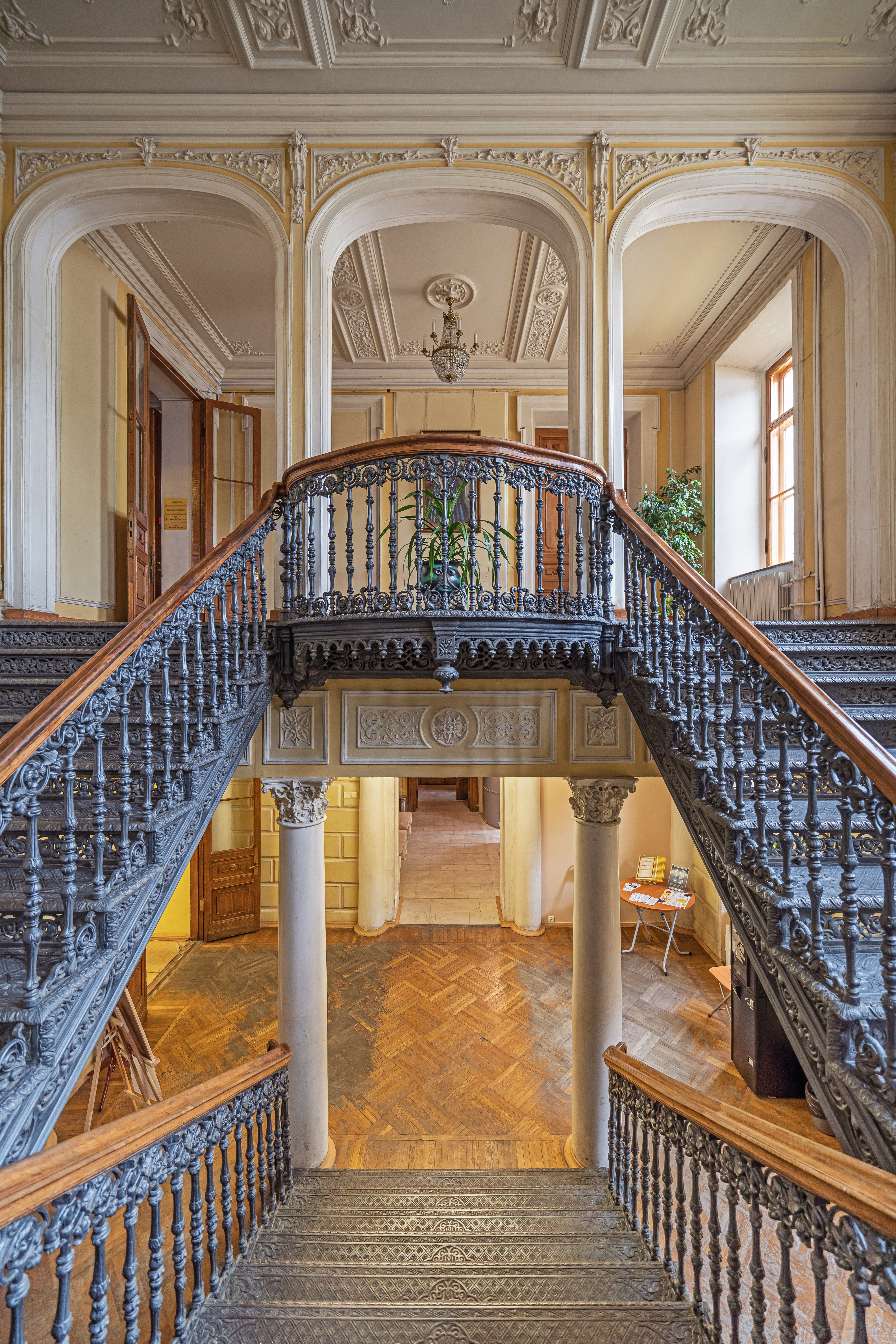 Interior of Pushkin Library in Moscow, Russia